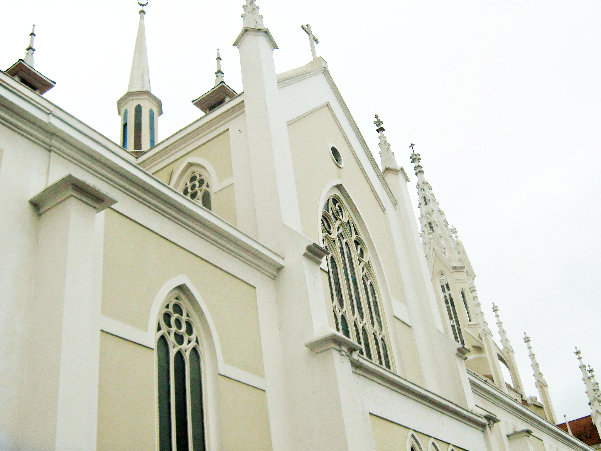 transepto de la basilica de ubate